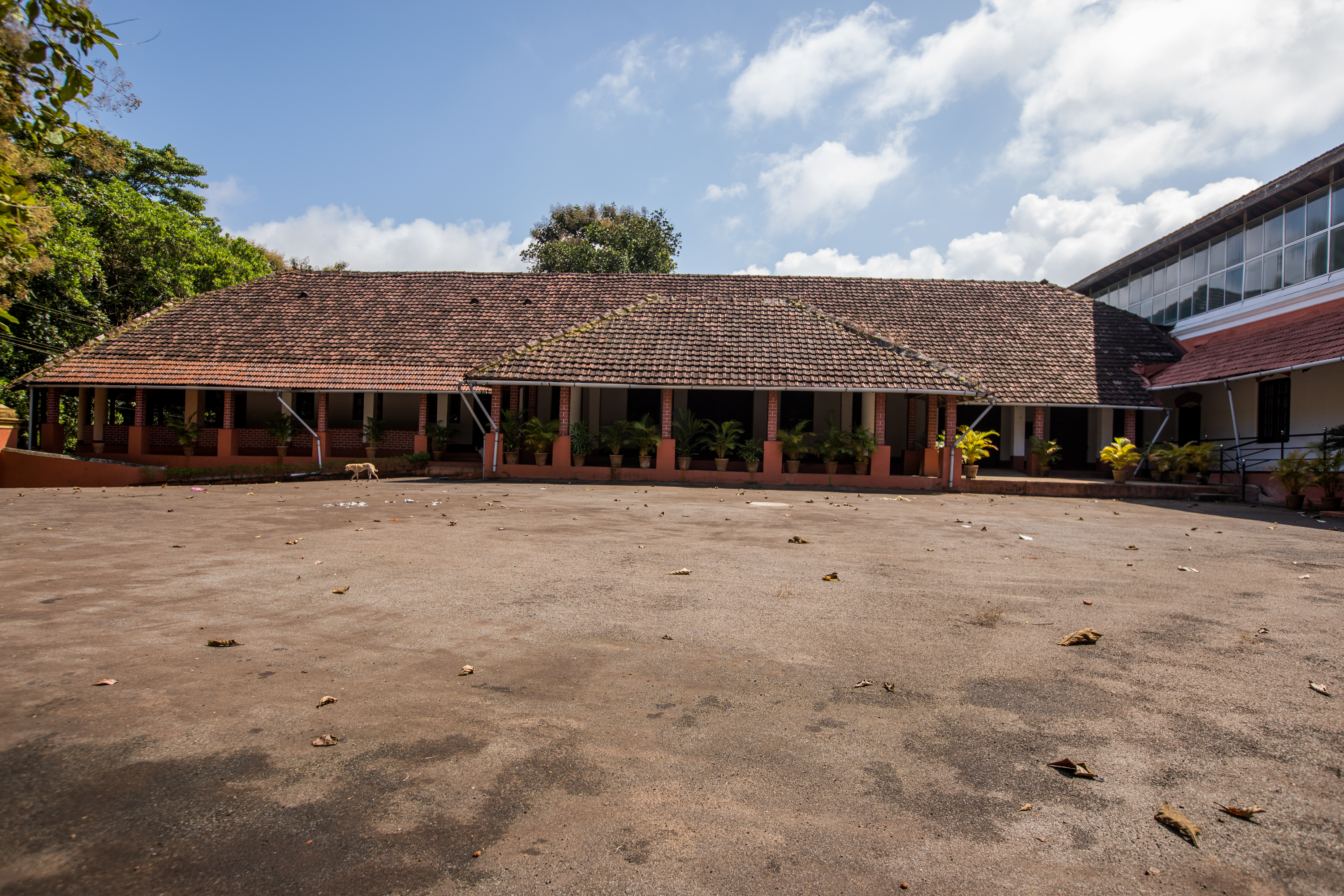 Hebich Industrial Training Institute